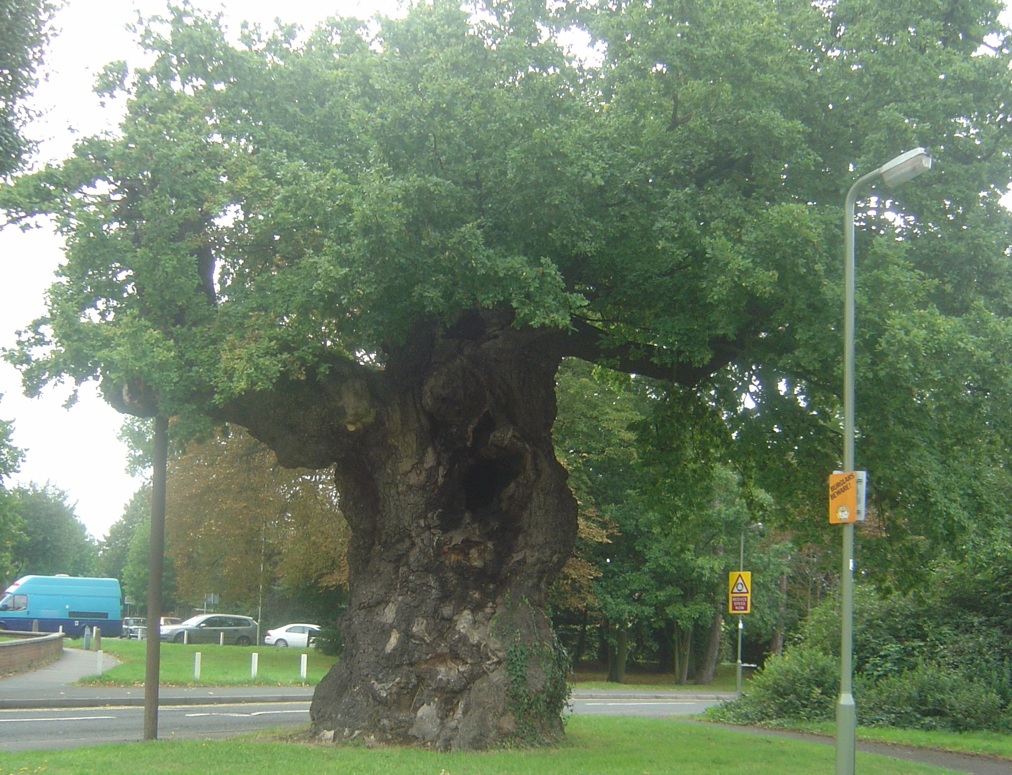 The Crouch Oak tree in Addlestone, Surrey. Supposed to be 1,000 years old.